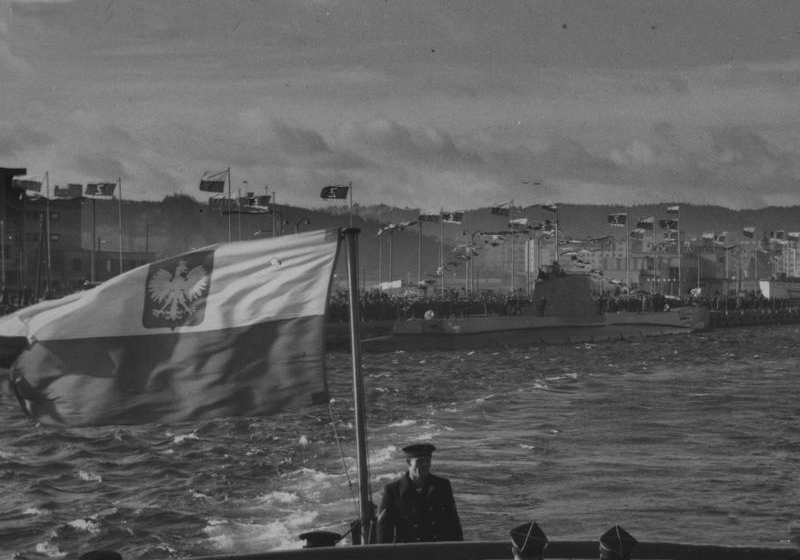 ORP Orzeł invited in Gdynia, 10/02/1939